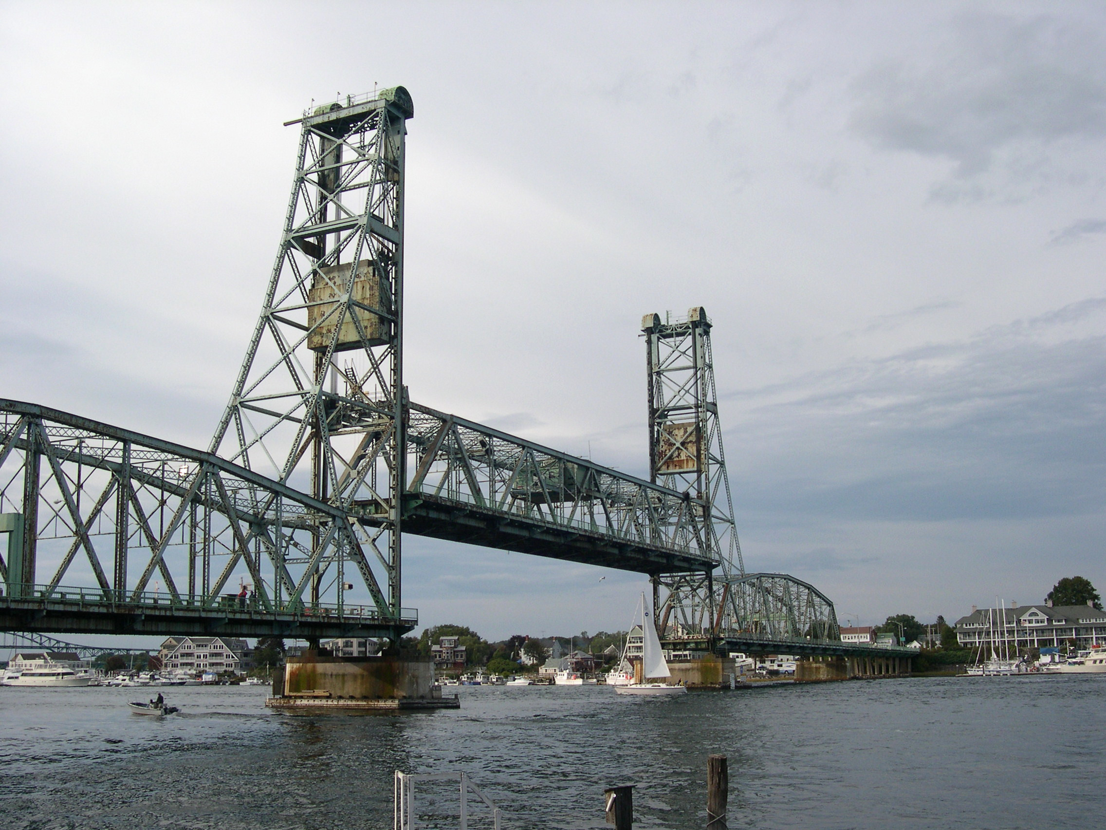 Sailboat crosses under the lift span of Portsmouth's Memorial Bridge